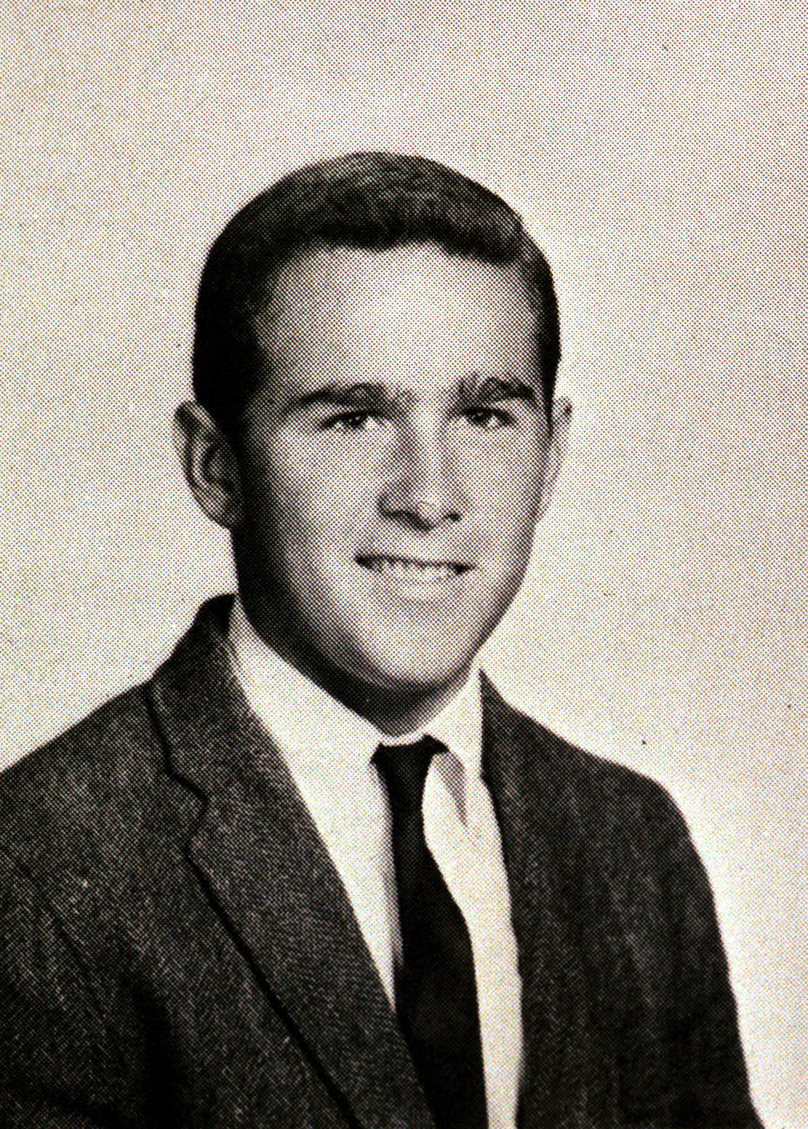 George W. Bush in the 1964 edition of the Pot Pourri yearbook produced by Phillips Academy Andover.